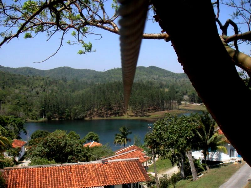 Las Terrazas village and lake in Sierra del Rosario, Cuba.